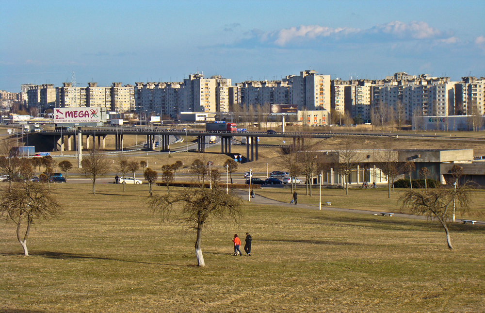 Silainiai district in Kaunas, Lithuania. Photo was taken from IX fort.